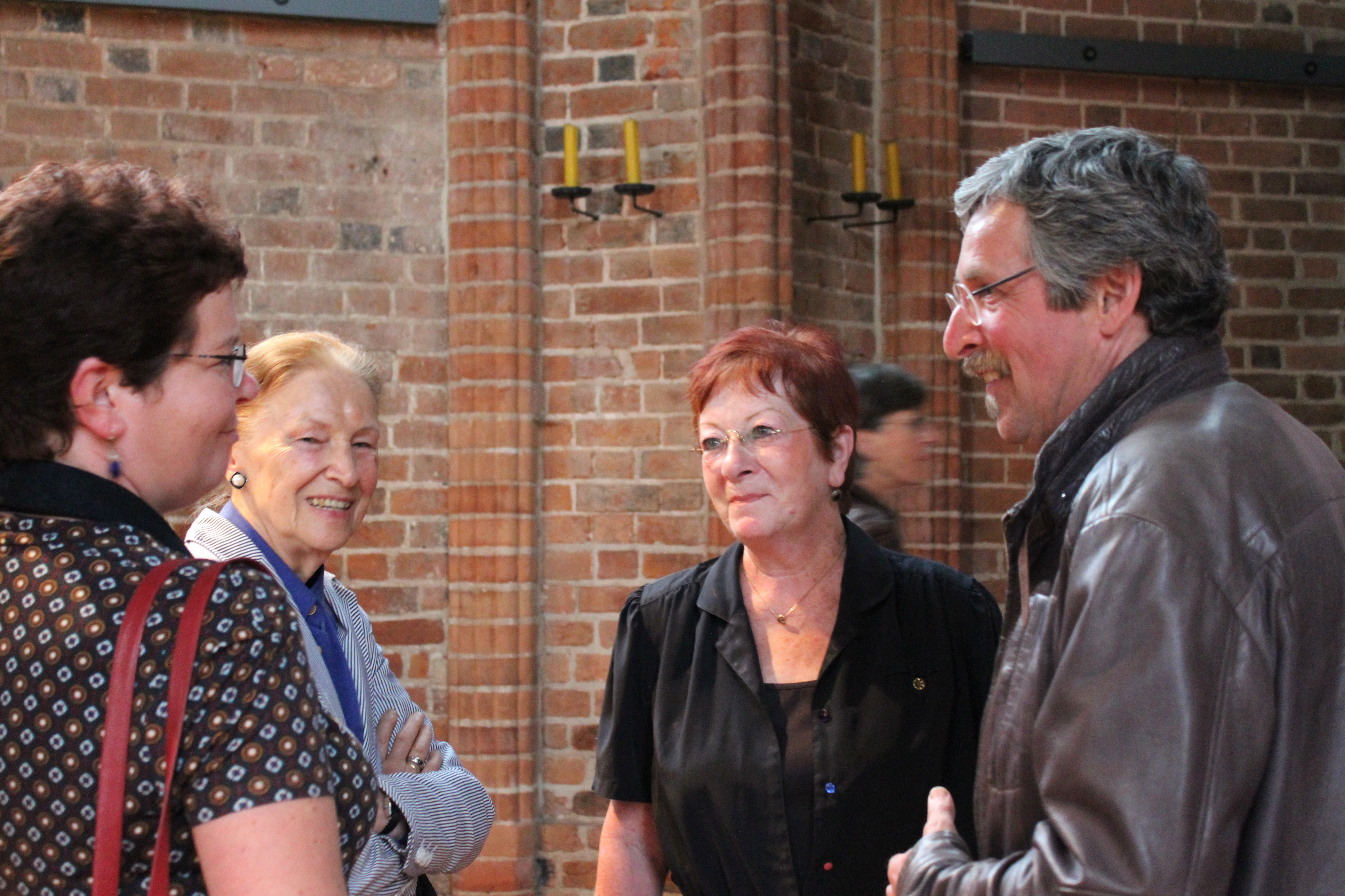 Sculptor Hartmut Stielow in conversation with Ilse Paul, Barbara Henkel and Cordula Paul (from right) during an exhibition opening in 2015 at the Evangelist Lutherian Market Church Hannover.